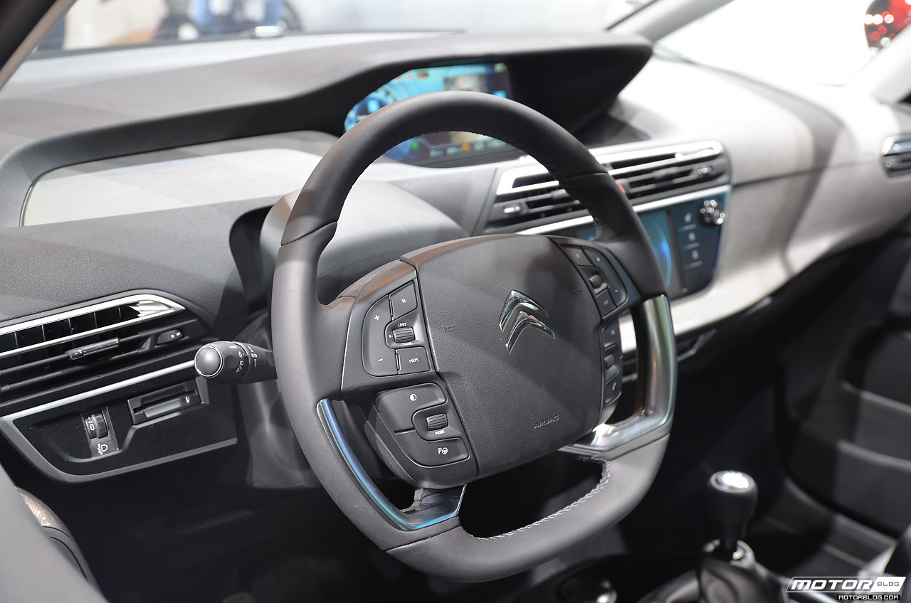 IAA Frankfurt 2013: Citroen C4 Grand Picasso / Photo: Raphael Jahn ______________________ Please feel free to use this image for FREE under the Creative Commons (CC) licence. However, if you use the image, pls set a backlink to and give credit as following: "Image: ". For highres images or any other inquiries pls contact mailto: . Thanks.